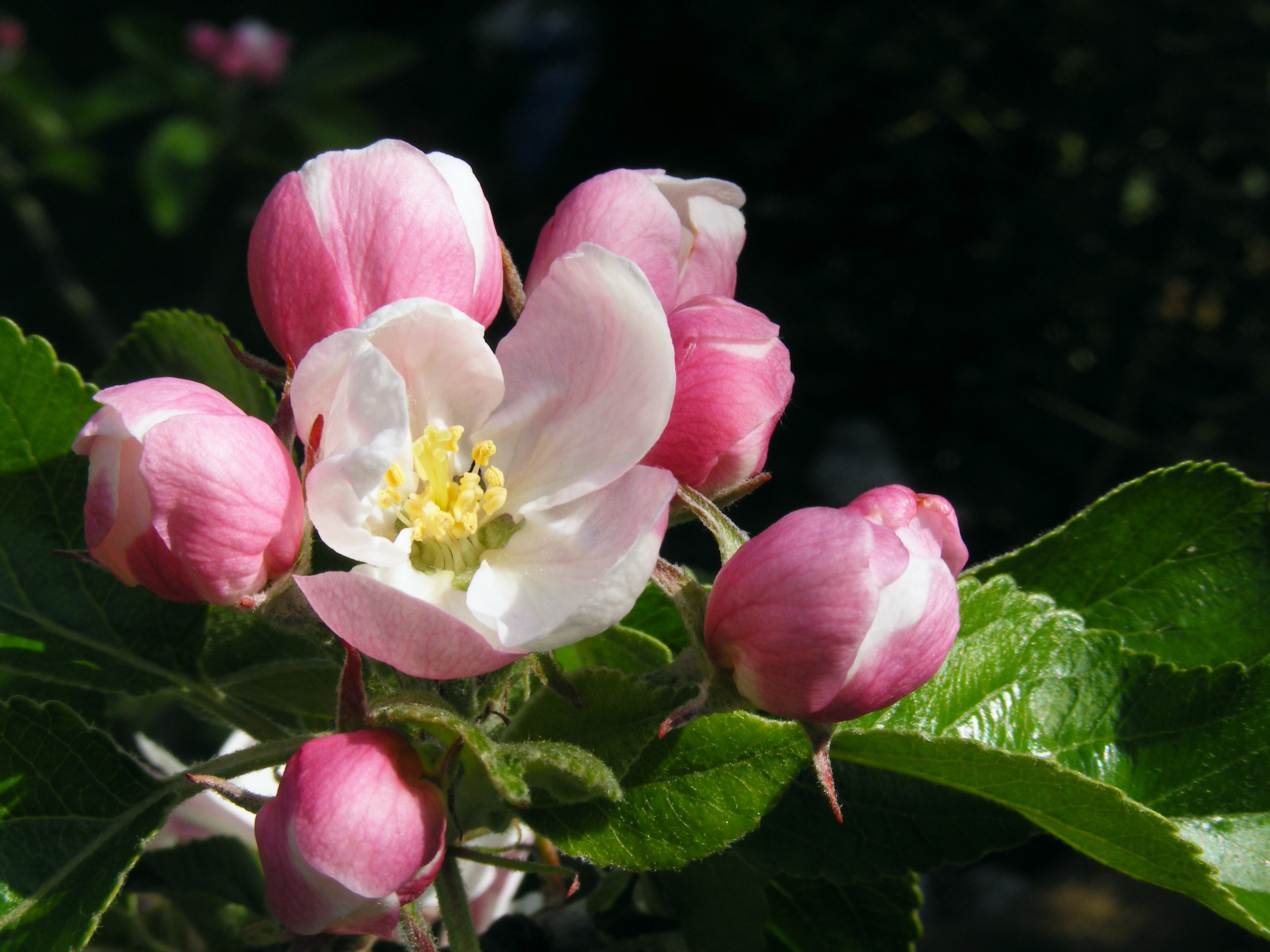 Apple blossom, variety James Greve.